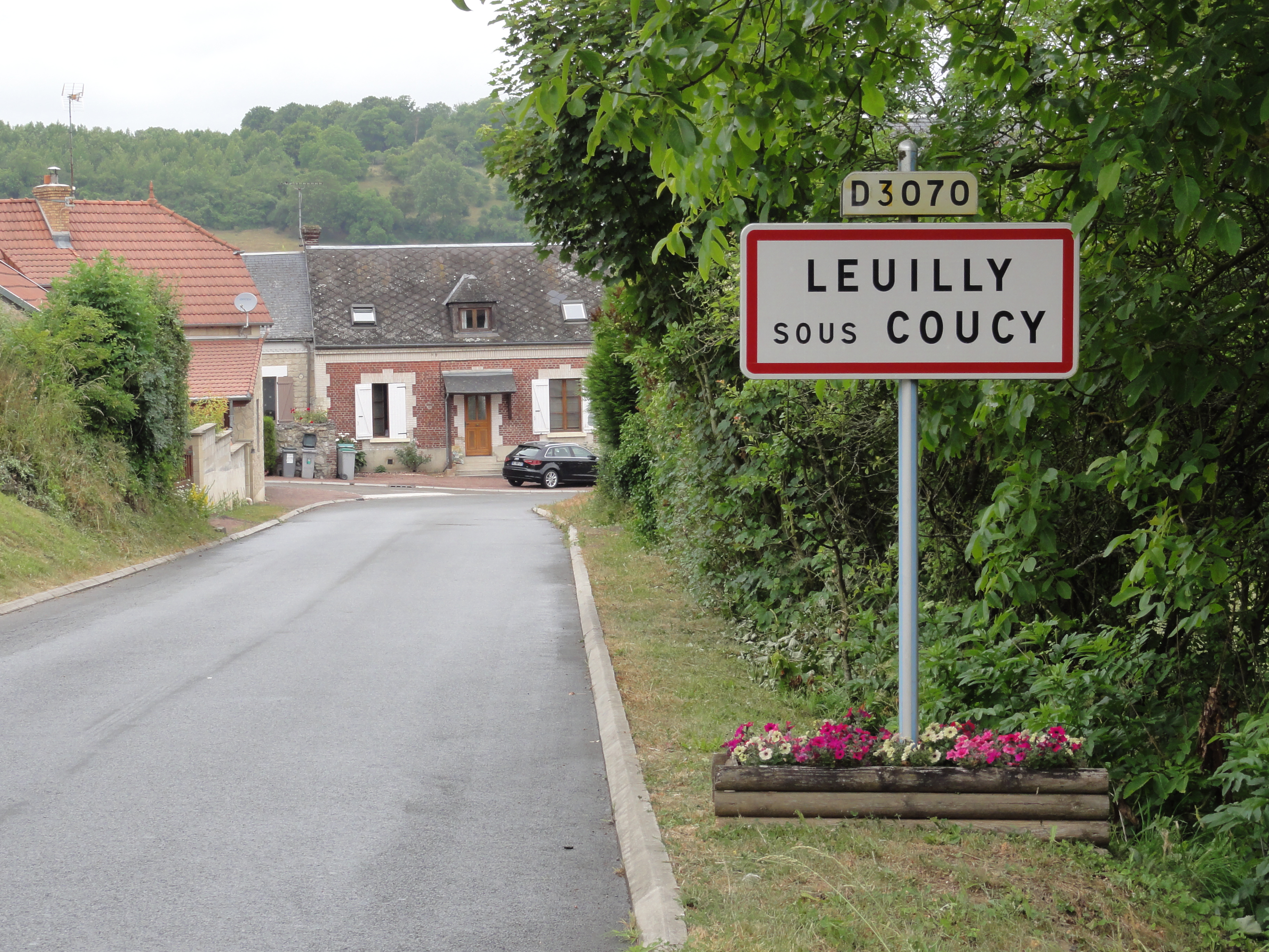 Leuilly-sous-Coucy (Aisne) city limit sign